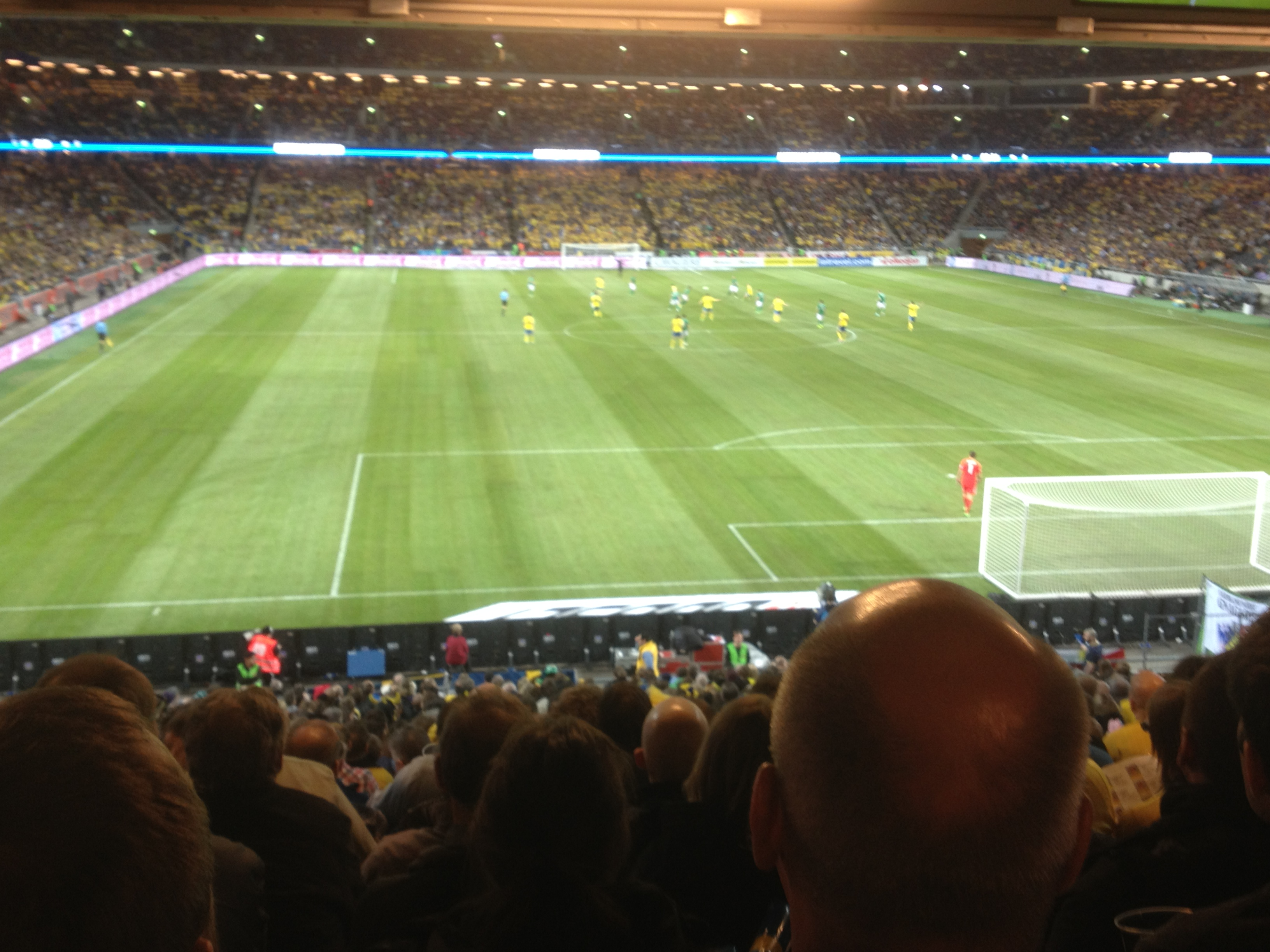 Sweden v Republic of Ireland at the Friends Arena. March 22nd 2013. The game finished 0-0.